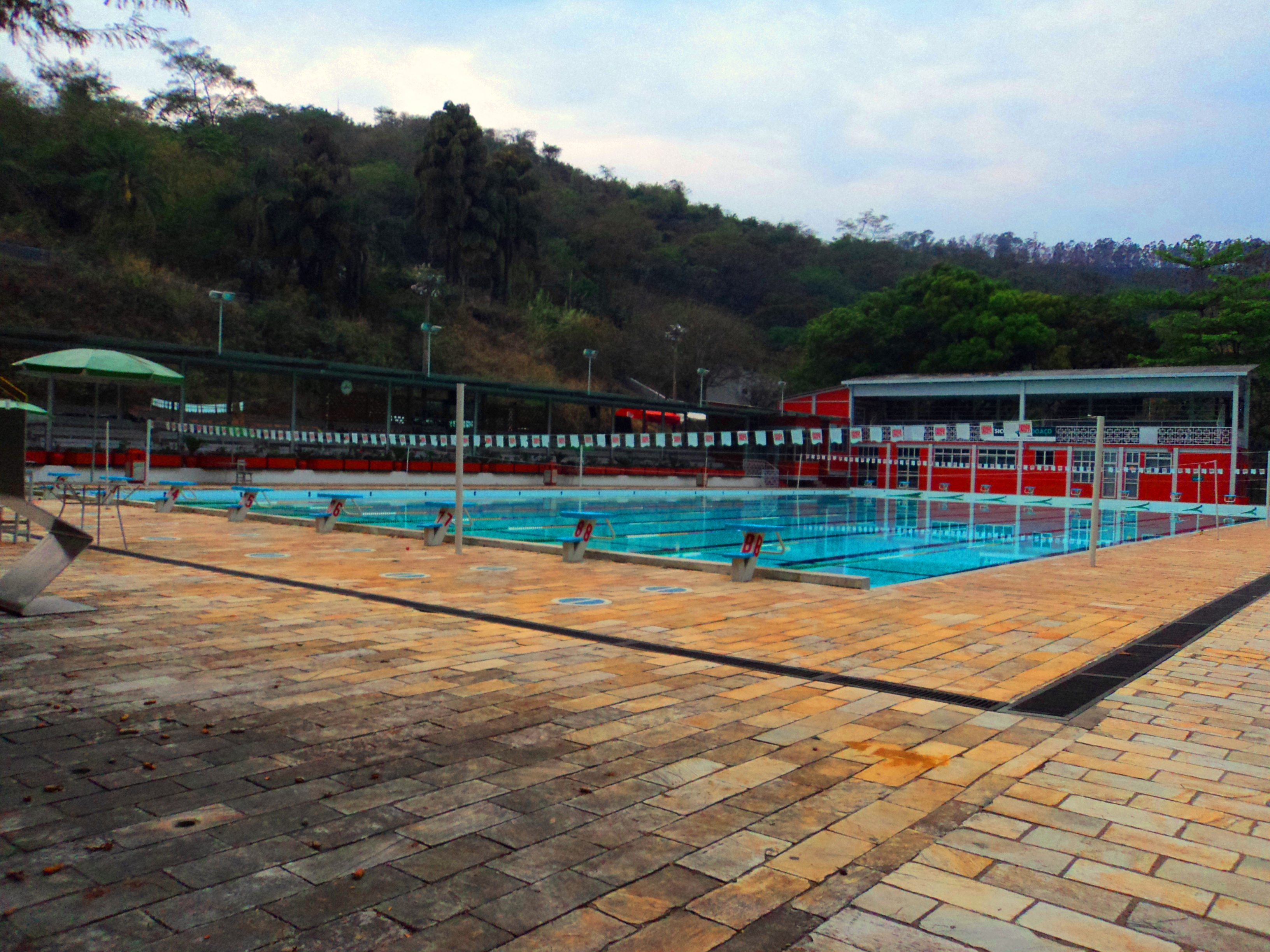 Pools in the Usipa, in Ipatinga, Minas Gerais, Brazil.